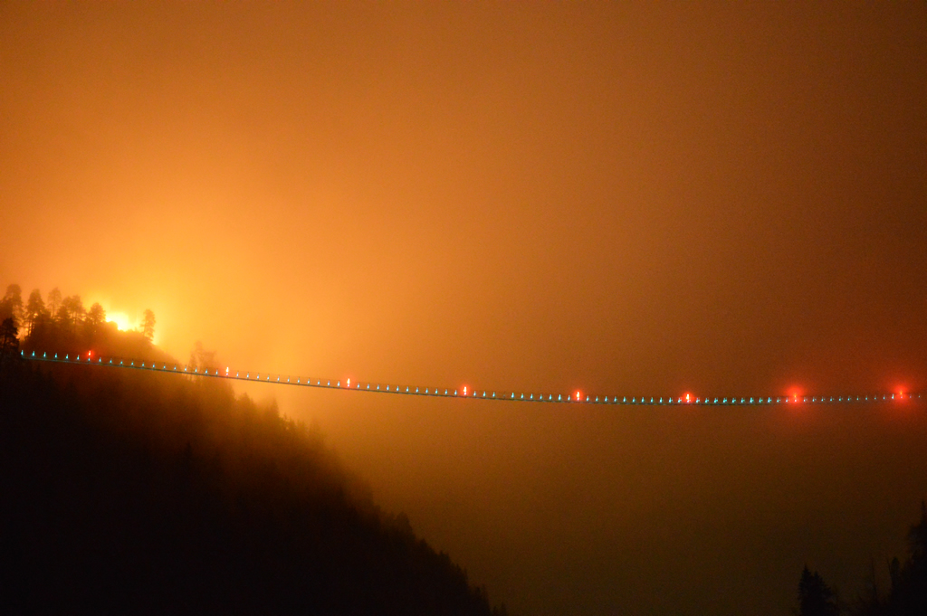 highline179 Night